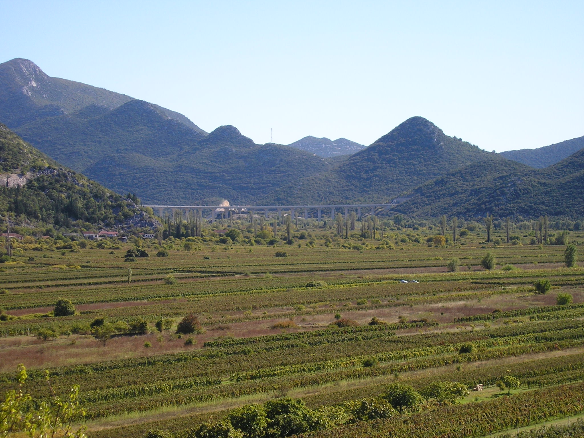 Vrgorac field (Jezero field)